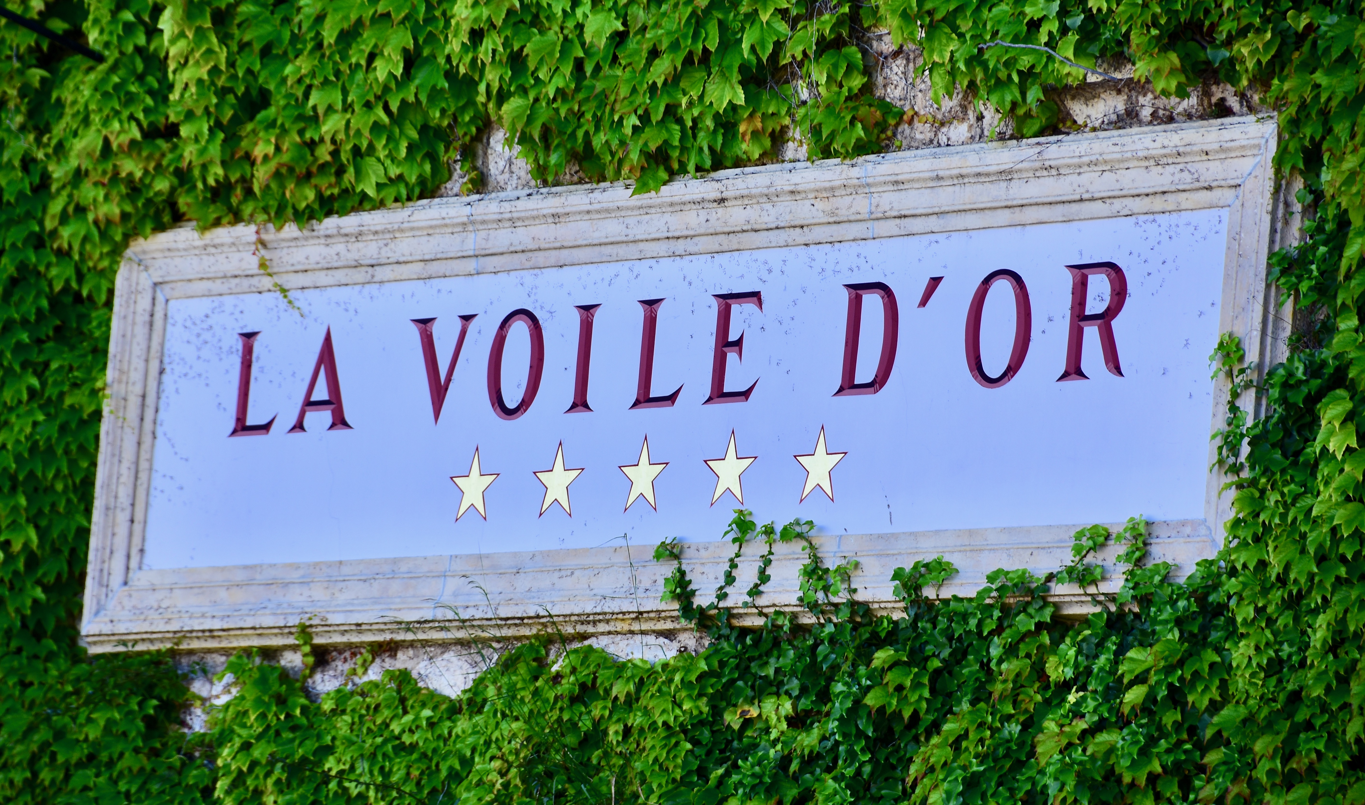 La voile d'Or 5 étoiles